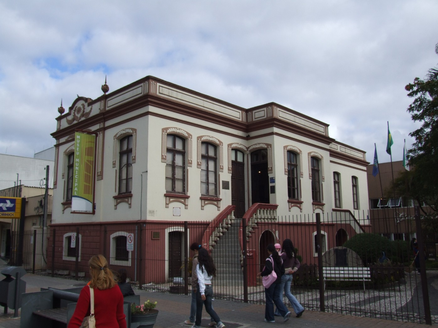 Atílio Rocco Municipal Museum, in the municipality of São José dos Pinhais, state of Paraná, Brazil